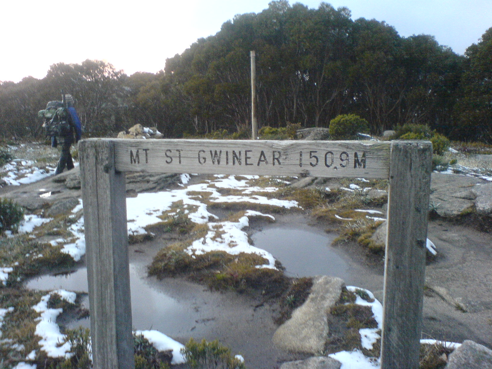 The summit of Mount St Gwinear, in alpine Victoria, Australia.